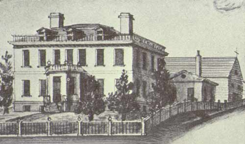 Watercolor drawing of the Schuyler Mansion made by Philip Hooker in 1818. Downloaded from the New York State Museum web site at